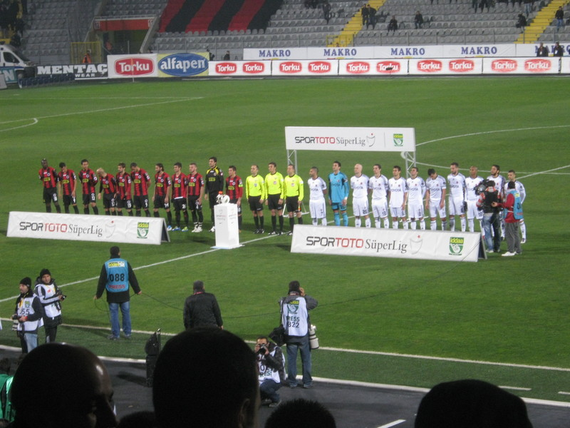 Turkish Super League match: Gençlerbirliği 4-2 Beşiktaş